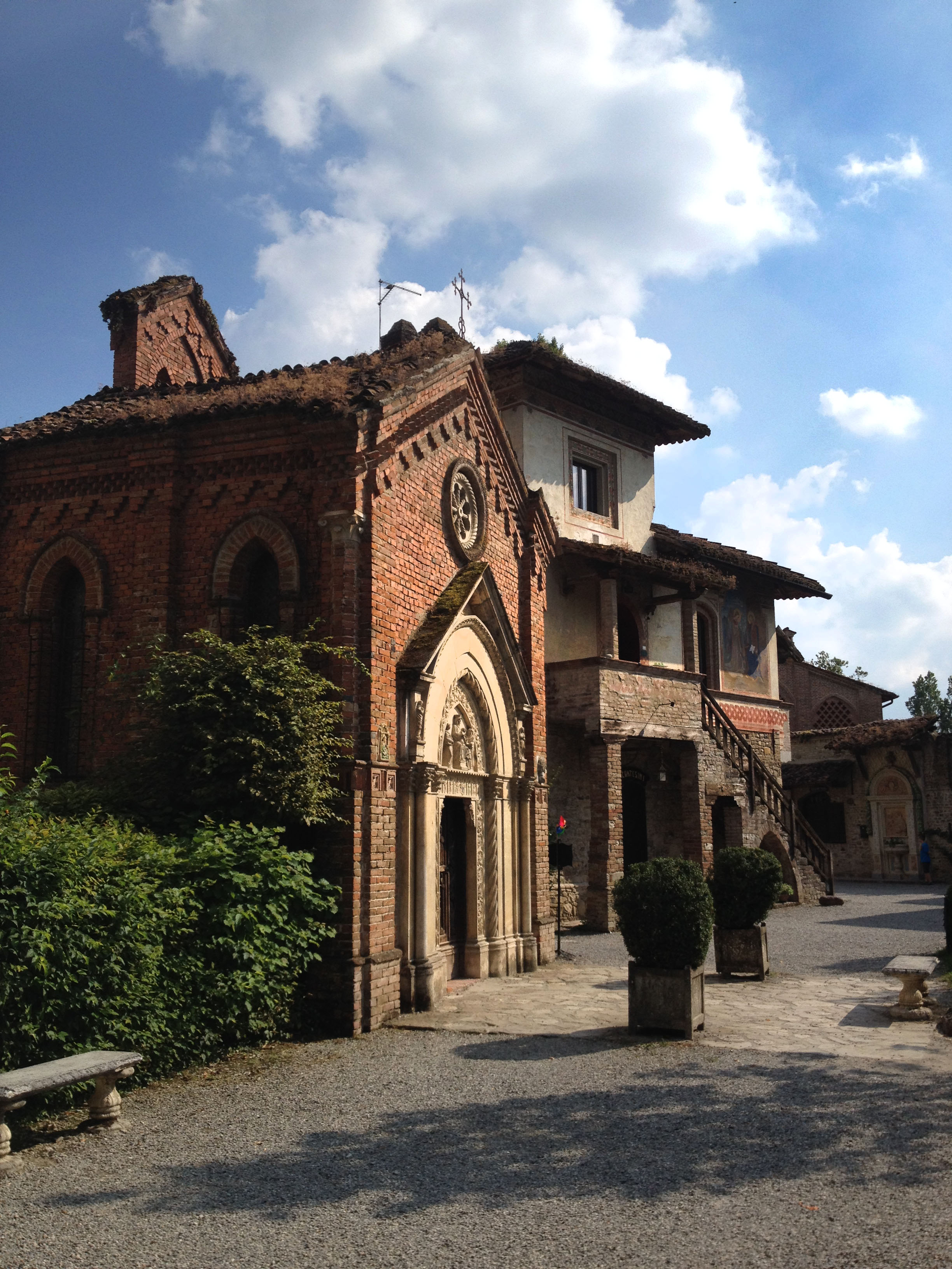 Grazzano Visconti